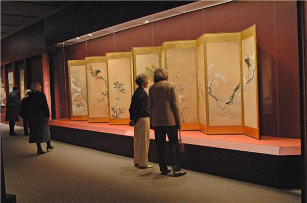 Smithsonian Contributing Membership Reception at the Arthur M. Sackler second floor galleries. Two women are standing in front of an exhibit of Japanese screens.